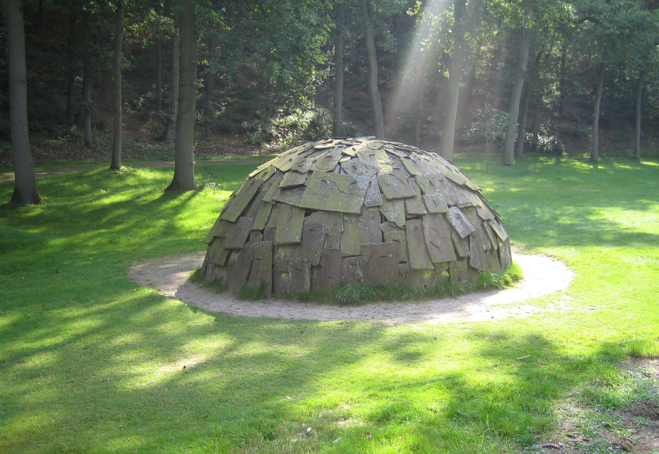 sculpture by Mario Merz in sculpturepark KMM in the Netherlands